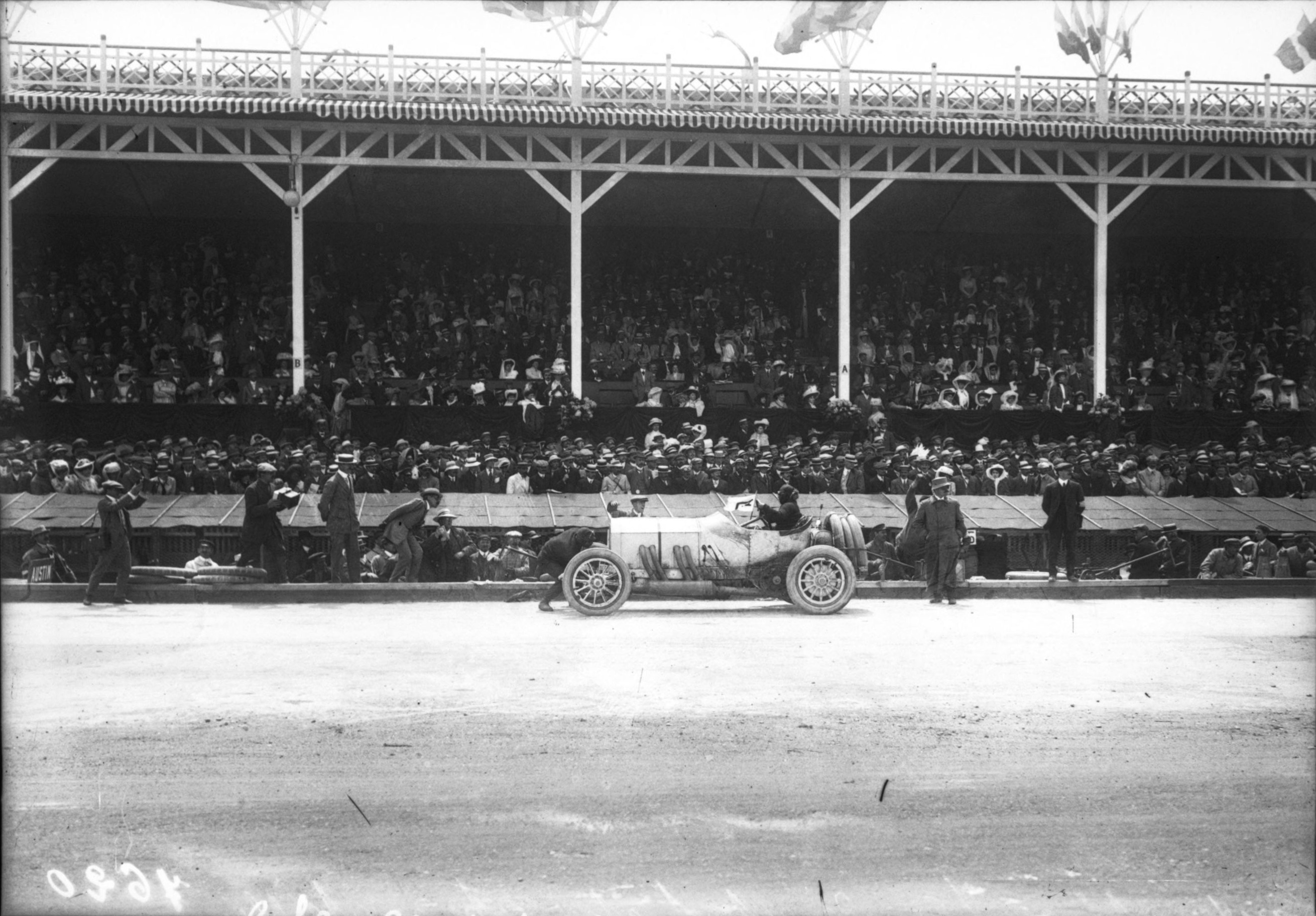 Christian Lautenschlager in his Mercedes at the 1908 French Grand Prix at Dieppe.